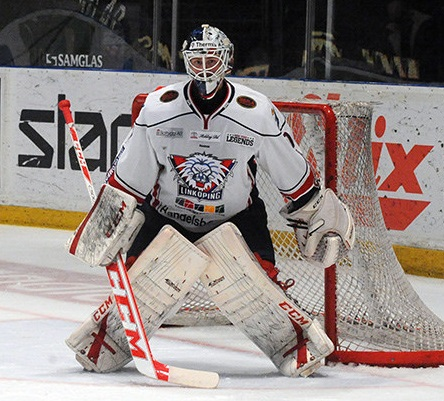 Marcus Högberg during a SHL game against AIK.